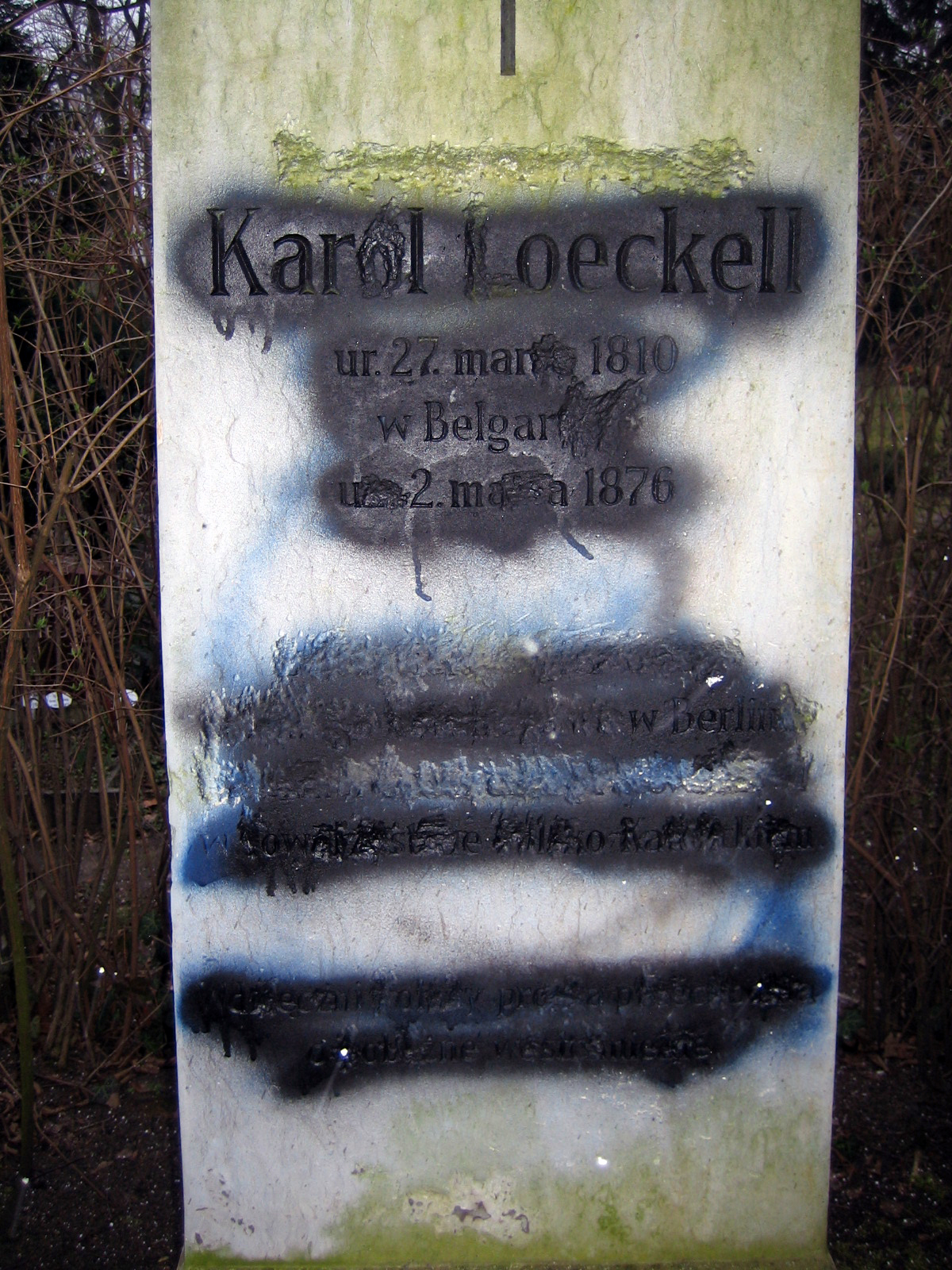 Memorial of Karol Loeckell